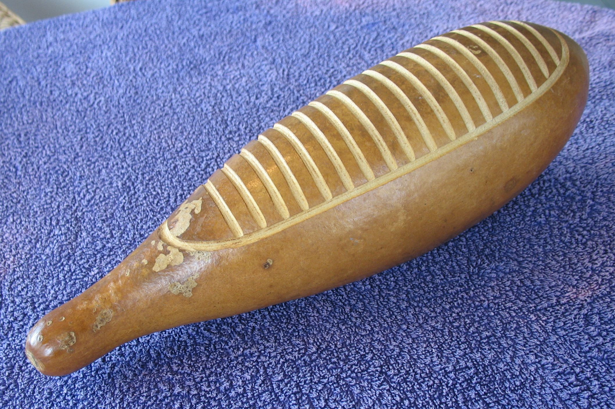 Güiro from Cuba. Around 35 cm long. It is held with one hand from an opening on the other side and played with the other hand using a stick on the carved side. Picture taken by myself